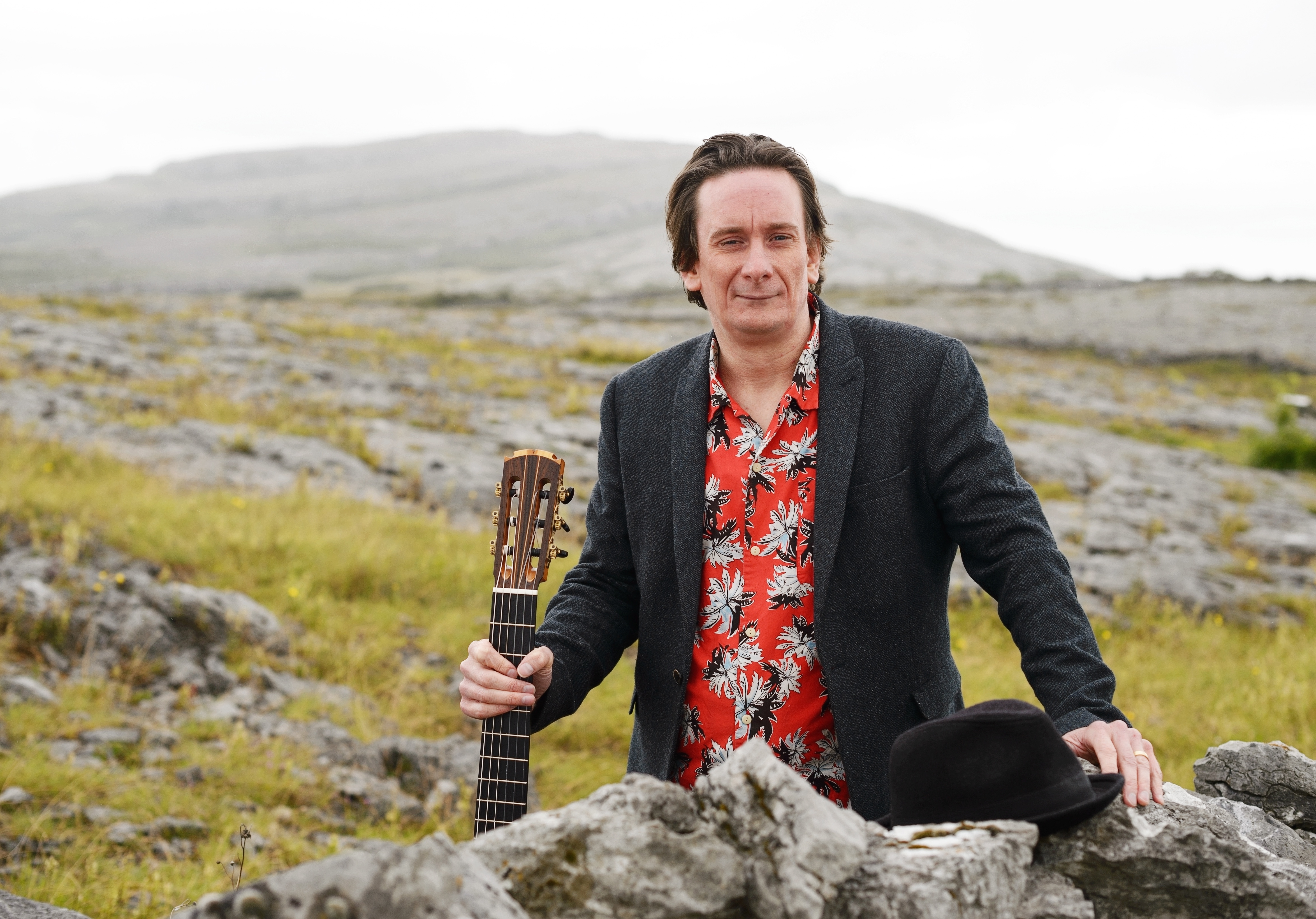 Composer and Guitarist Dave Flynn pictured in the Burren, County Clare, Ireland